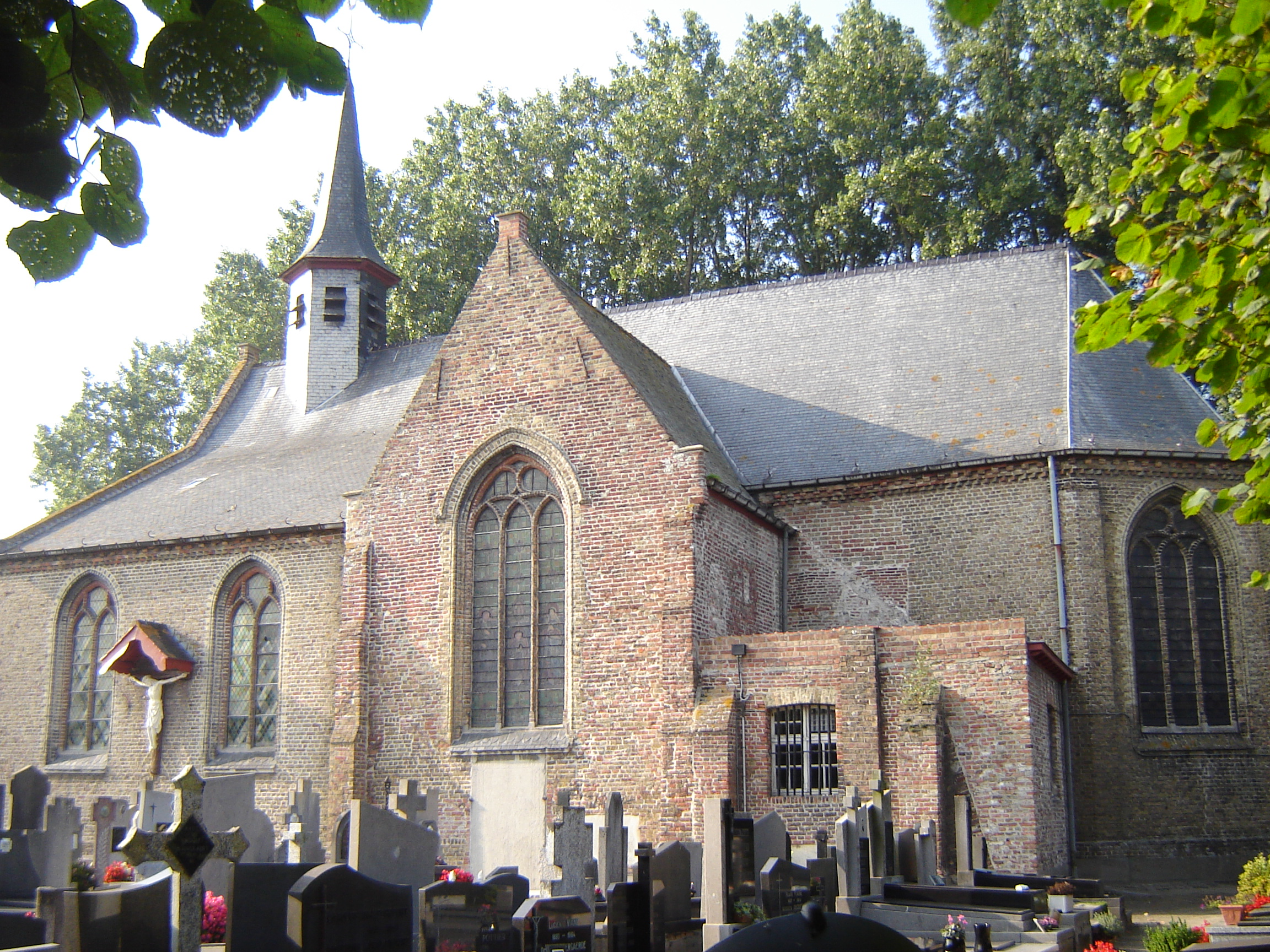 Church of Saint Amand in Bekegem. Bekegem, Ichtegem, West Flanders, Belgium